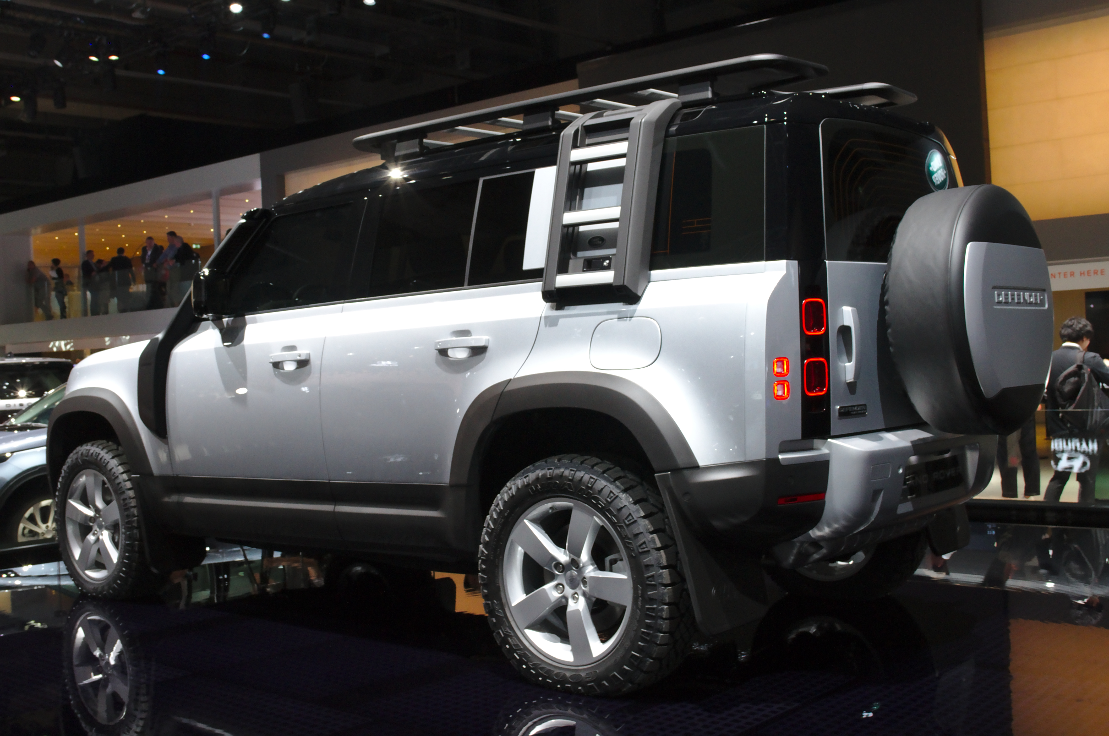 Land_Rover_Defender_(L663) at IAA 2019